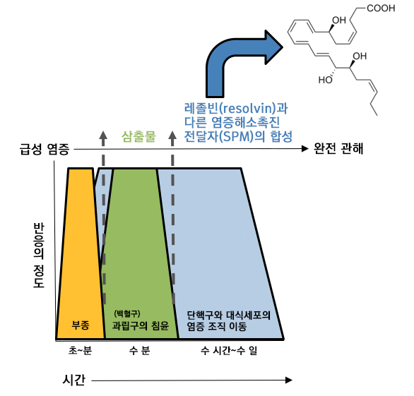 The Korean translation version of the work contributed by Jenglish18. Original Source: [1]